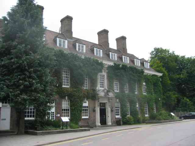 Batchwood Hall. The hall and grounds are devoted to golf and tennis and the hall is used for social functions , night clubs and dancing.